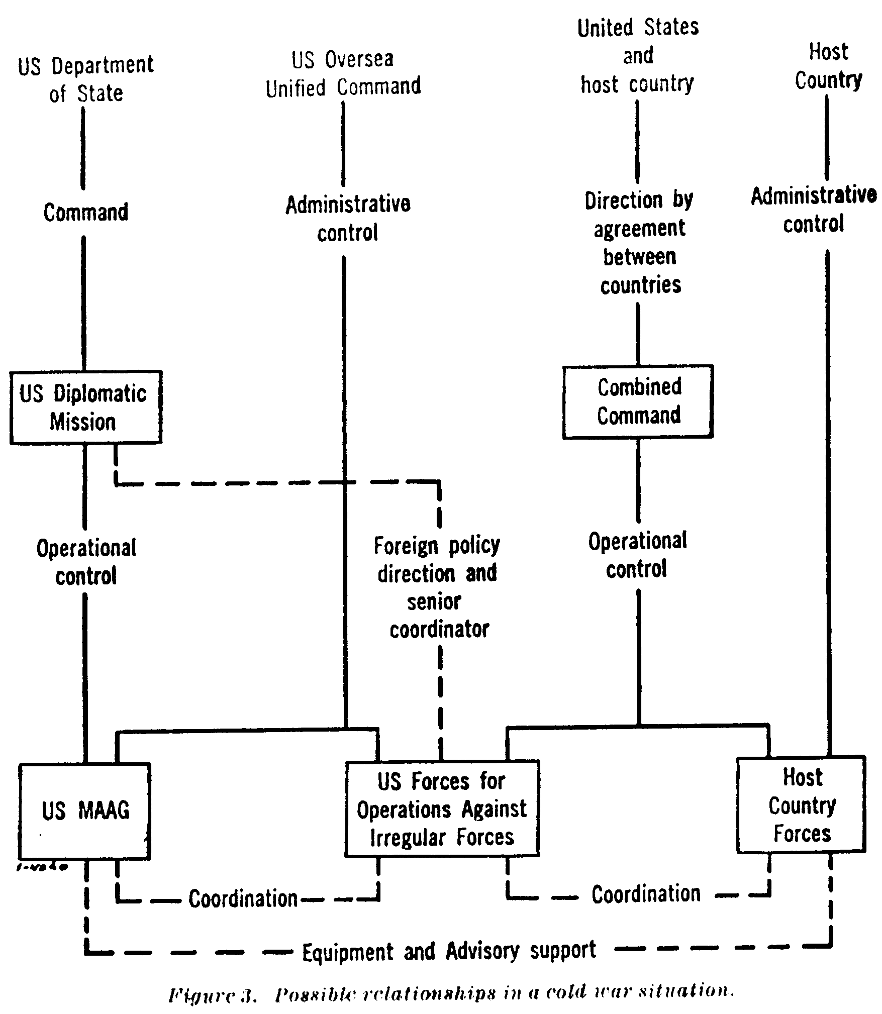 U.S. Army Field Manual 31-15: Operations Against Irregular Forces Figure 3: Possible relationships in a cold war situation.